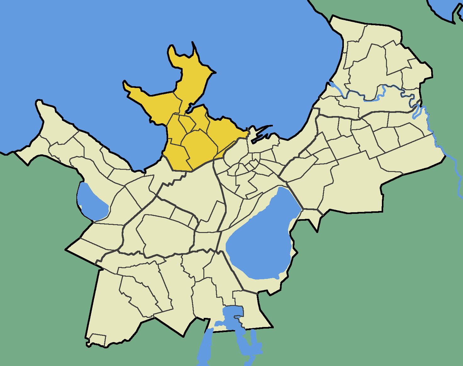 Map of Tallinn (Estonia) with borders of the quarters, Põhja-Tallinn district emphasised